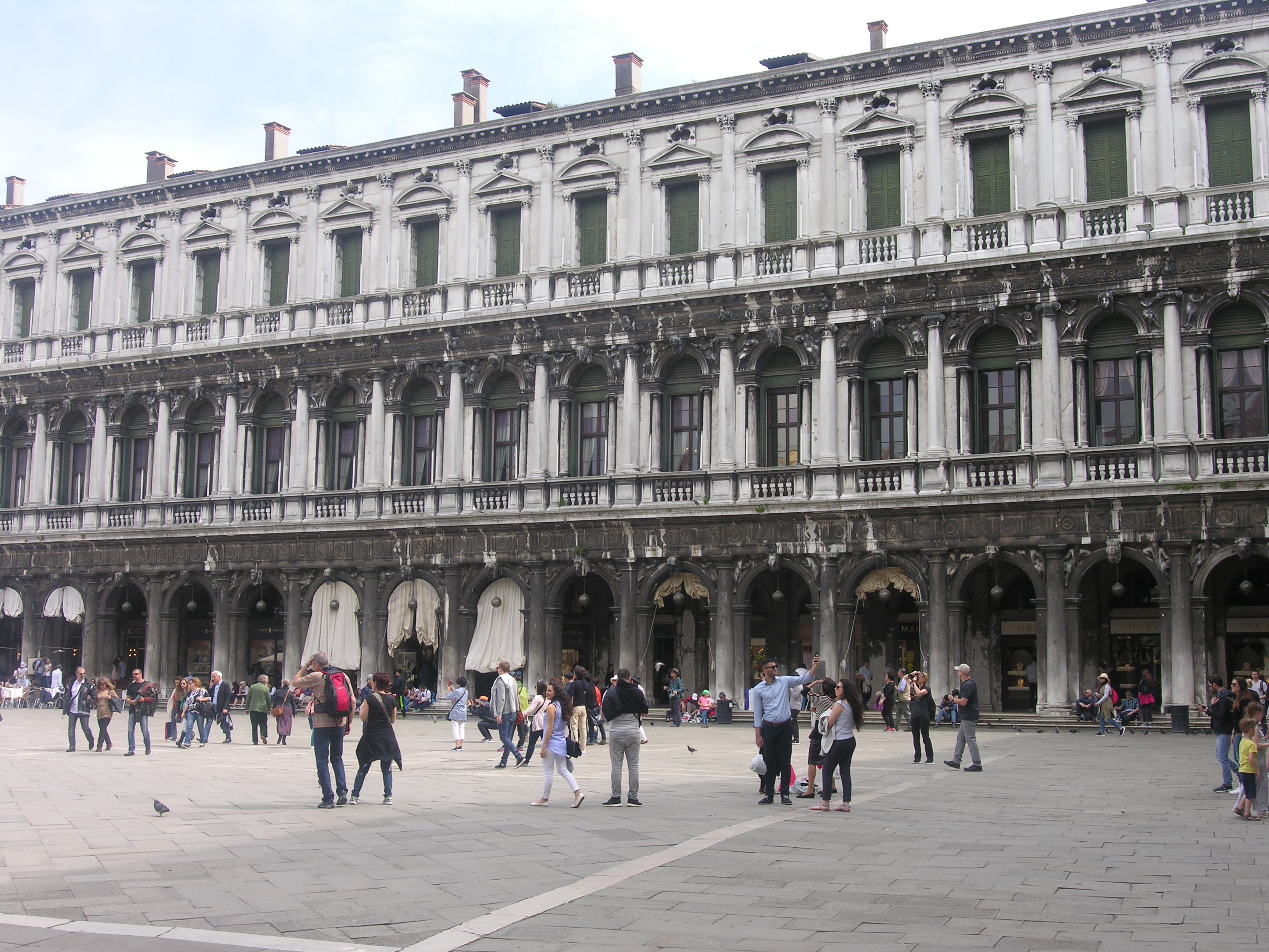 San Marco, 30100 Venice, Italy